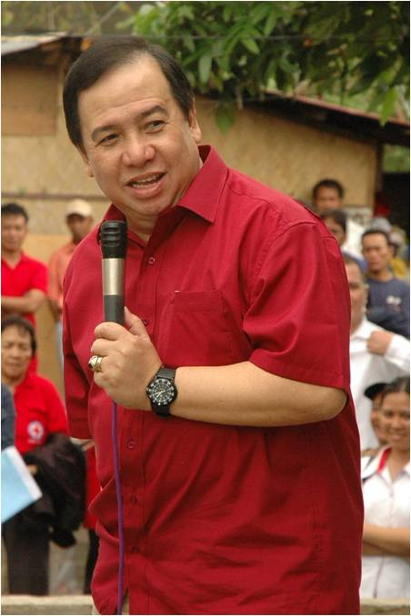 Senator Richard Gordon visits a community for relief and rehabilitation.